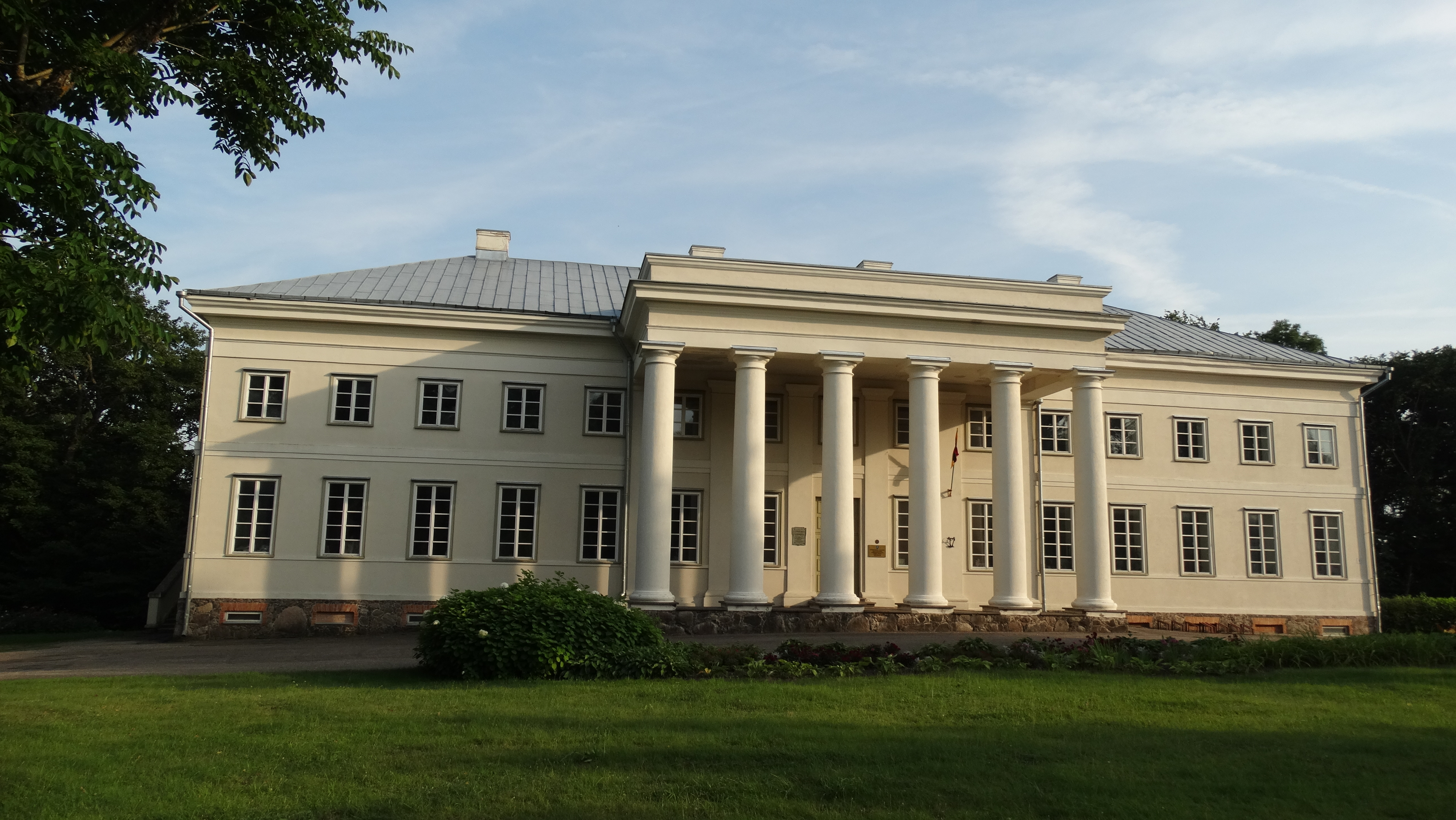 Cirkliškis, Švenčionys District, Lithuania